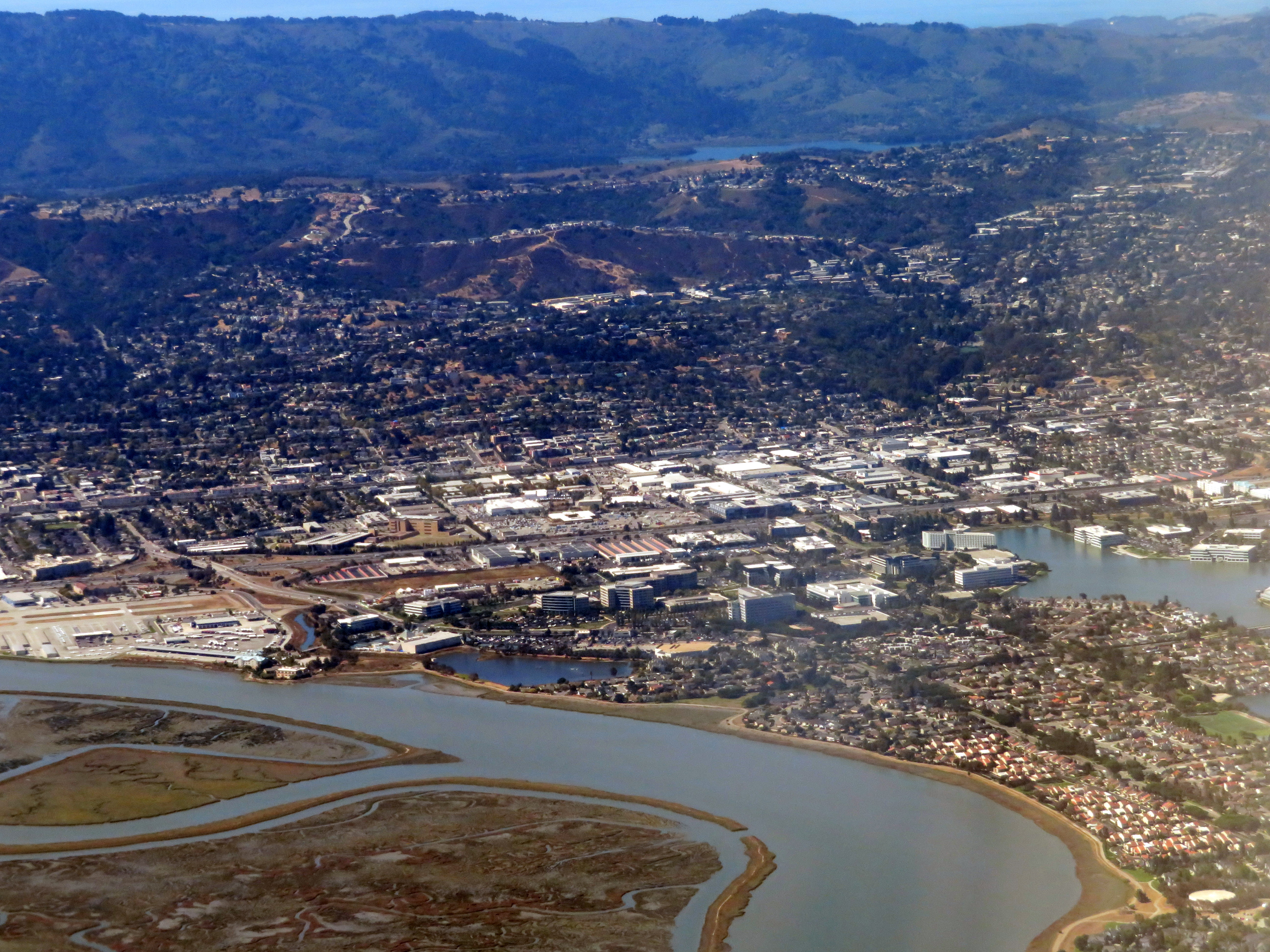 Aerial view of Belmont from the east in September 2019